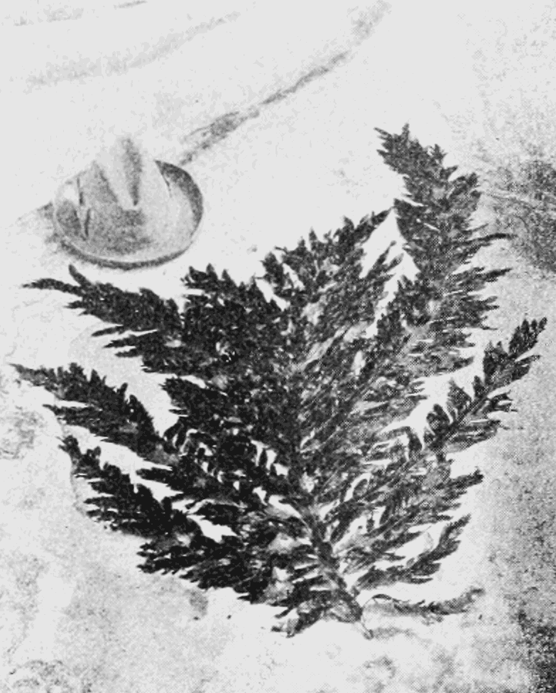 Frond of desmarestia ligulata herbacea